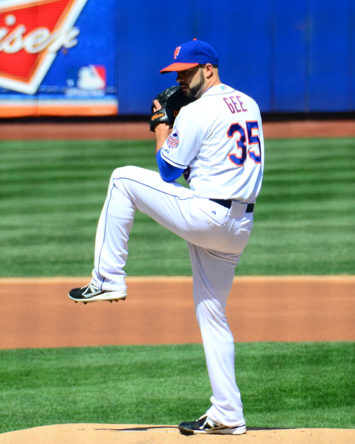 Dillon Gee pitching for the New York Mets, April 4, 2013.